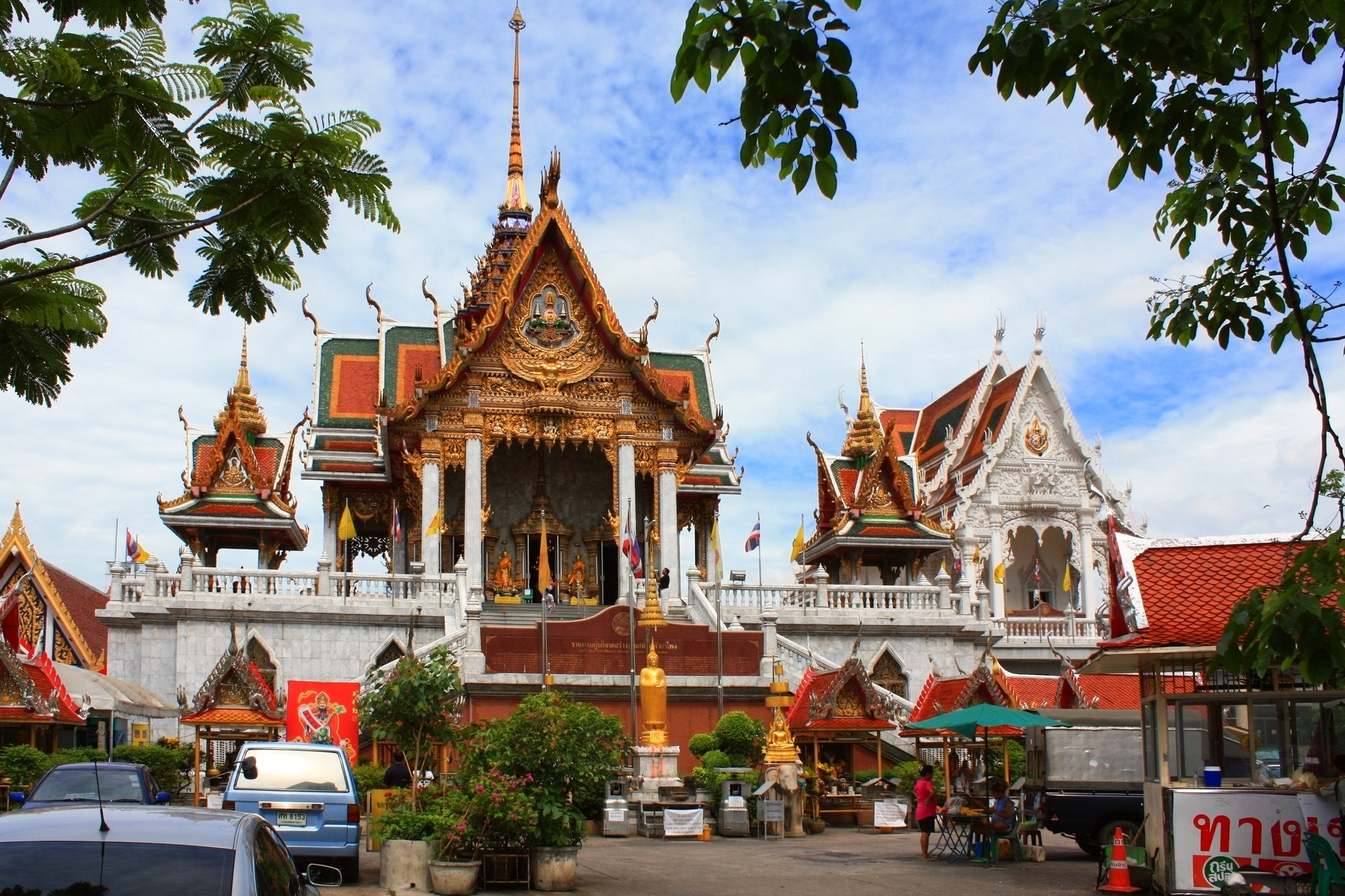 Wat Hualamphong, district Bang Rak, Bangkok